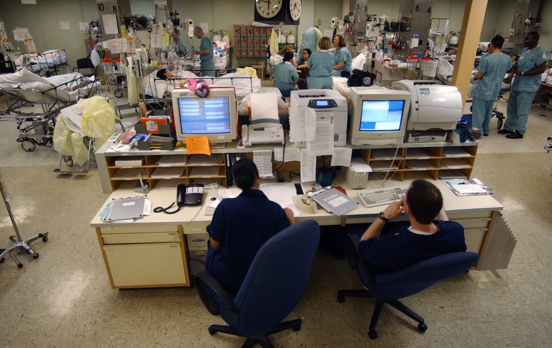 Aboard USNS Comfort (T-AH 20) Apr. 23, 2003 -- A central computer system monitors the heart rates of each patient in the Intensive Care Unit (ICU) to ensure a quick response to any problems that may occur while aboard USNS Comfort (T-AH 20). Comfort is one of two hospital ships operated by Military Sealift Command and is designed to provide emergency, on-site care for U.S. combatant forces deployed in war or other operations. USNS Mercy (T-AH 19) and Comfort each contain 12 fully-equipped operating rooms, a 1,000 bed hospital facility, digital radiological services, a diagnostic and clinical laboratory, a pharmacy, an optometry lab, a cat scan and two oxygen producing plants. Both hospital ships are converted San Clemente-class super tankers. Comfort set sail for New York City and provided housing, laundry, food, medical and other services to volunteers and rescue personnel for nearly three weeks in the wake of the terrorist attack on the World Trade Center. Comfort was activated again in December 2002 and sailed to the Arabian Gulf to support Operation Iraqi Freedom, the multi-national coalition effort to liberate the Iraqi people, eliminate Iraq’s weapons of mass destruction, and end the regime of Saddam Hussein. U.S. Navy photo by Photographer's Mate 1st Class Shane T. McCoy. (RELEASED)